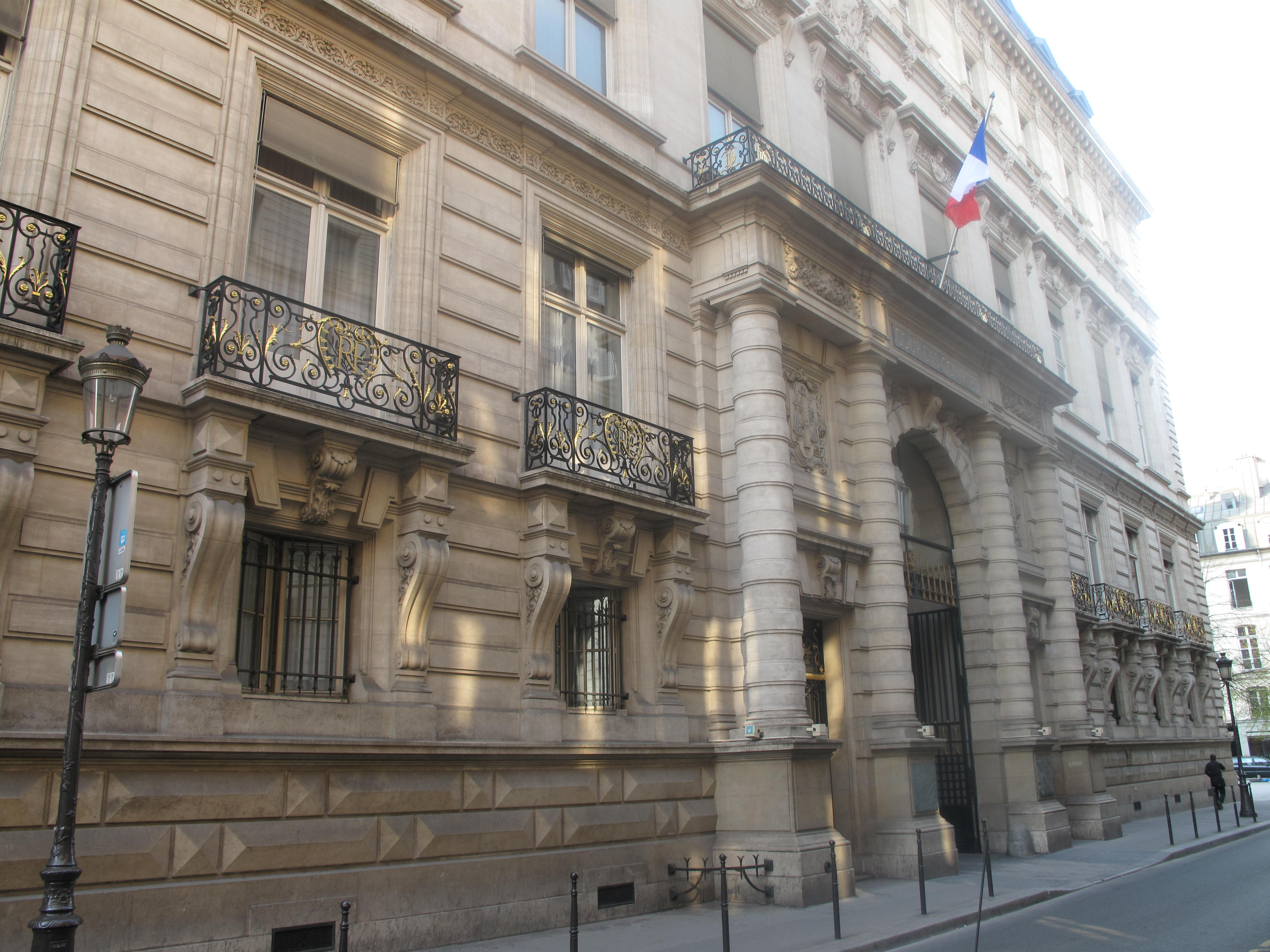 Building of the Cour des Comptes : 13 rue Cambon, Paris 1st arr.